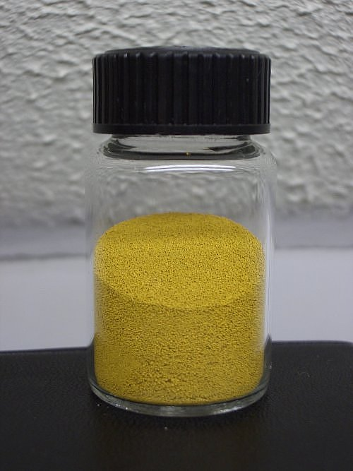 Vanadium pentoxide in a vial